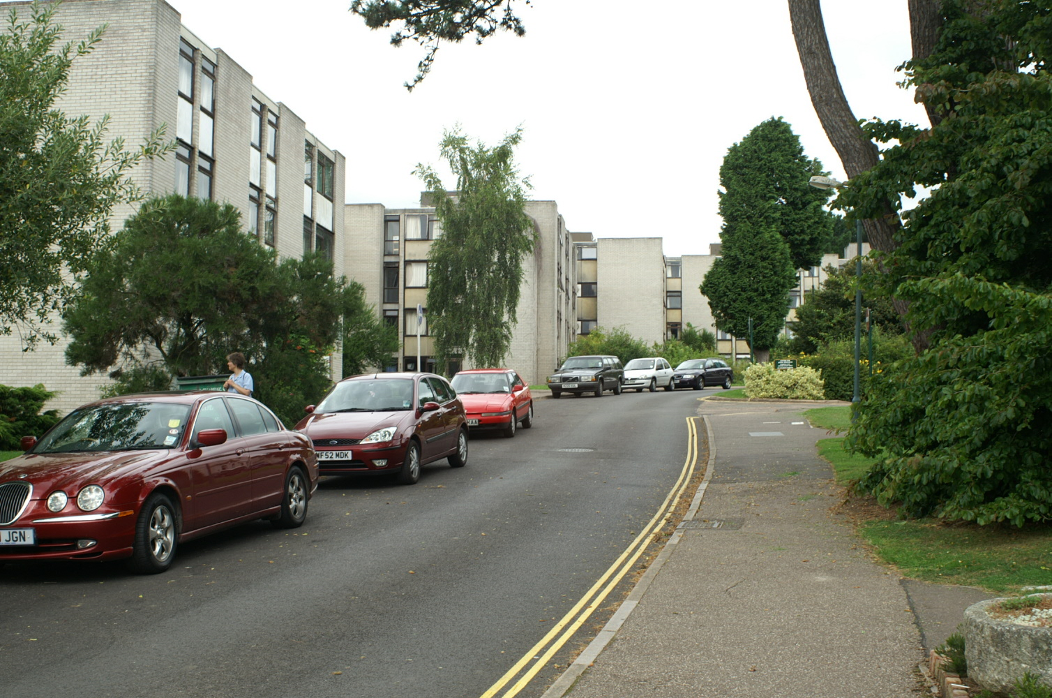 Lafrowda Flats, University of Exeter.